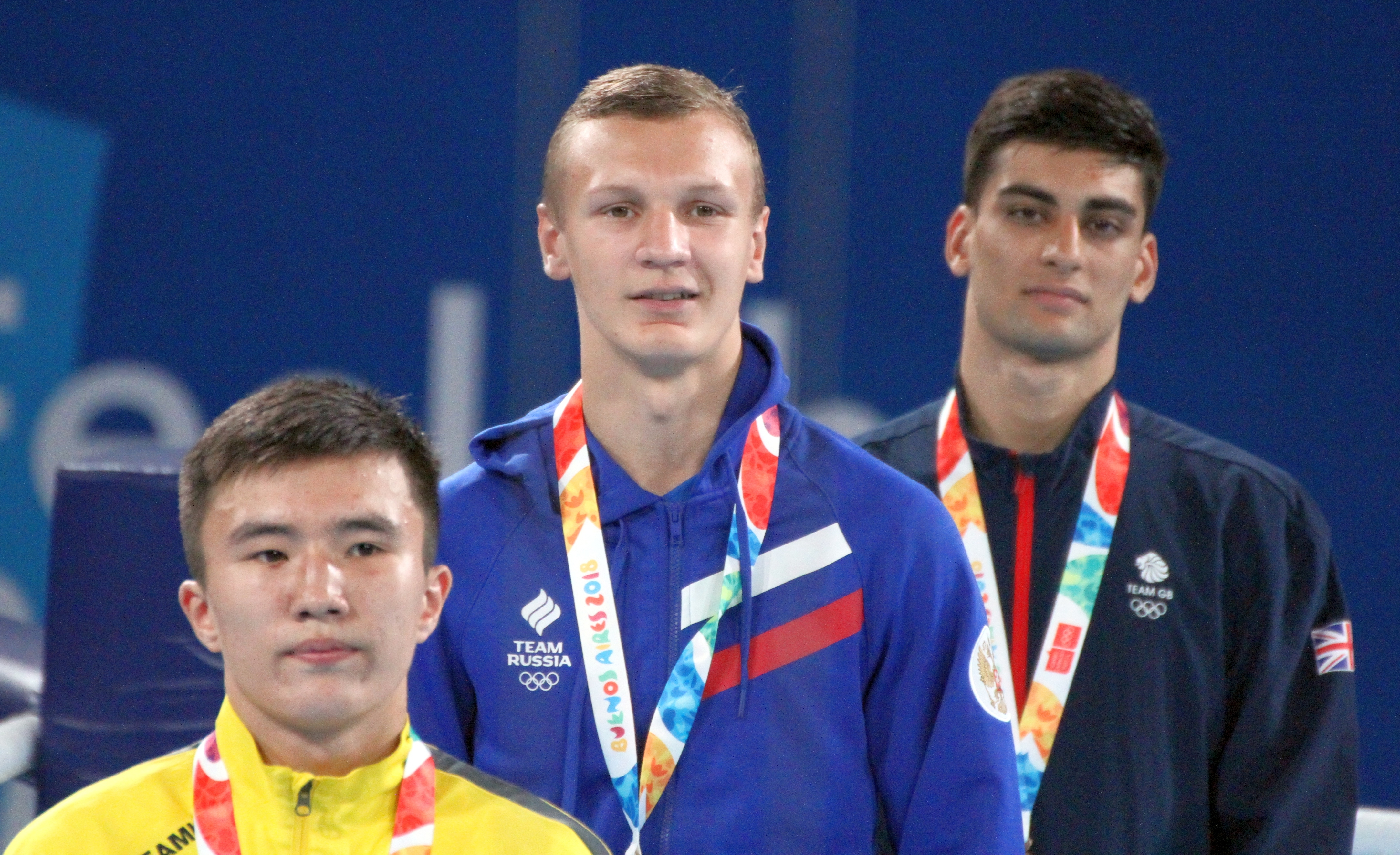 Boxing at the 2018 Summer Youth Olympics on 18 October 2018 – Boys' light welterweight Victory Ceremony - Gold: Ilia Popov (Russia), Silver: Talgat Shaiken (Kazakhstan), Bronze: Hassan Azim (Great Britain); Medal handover by Nicole Hoevertsz (IOC, Aruba), Gift presented by Sidi Mohamed Moustahsane (Morocco, AIBA).